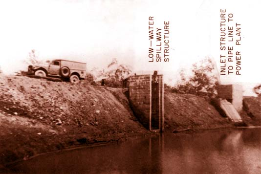 Separate inlets for low-water spillway and welded steel penstock to power plant for Kelly Barnes Dam, photographed in 1949.